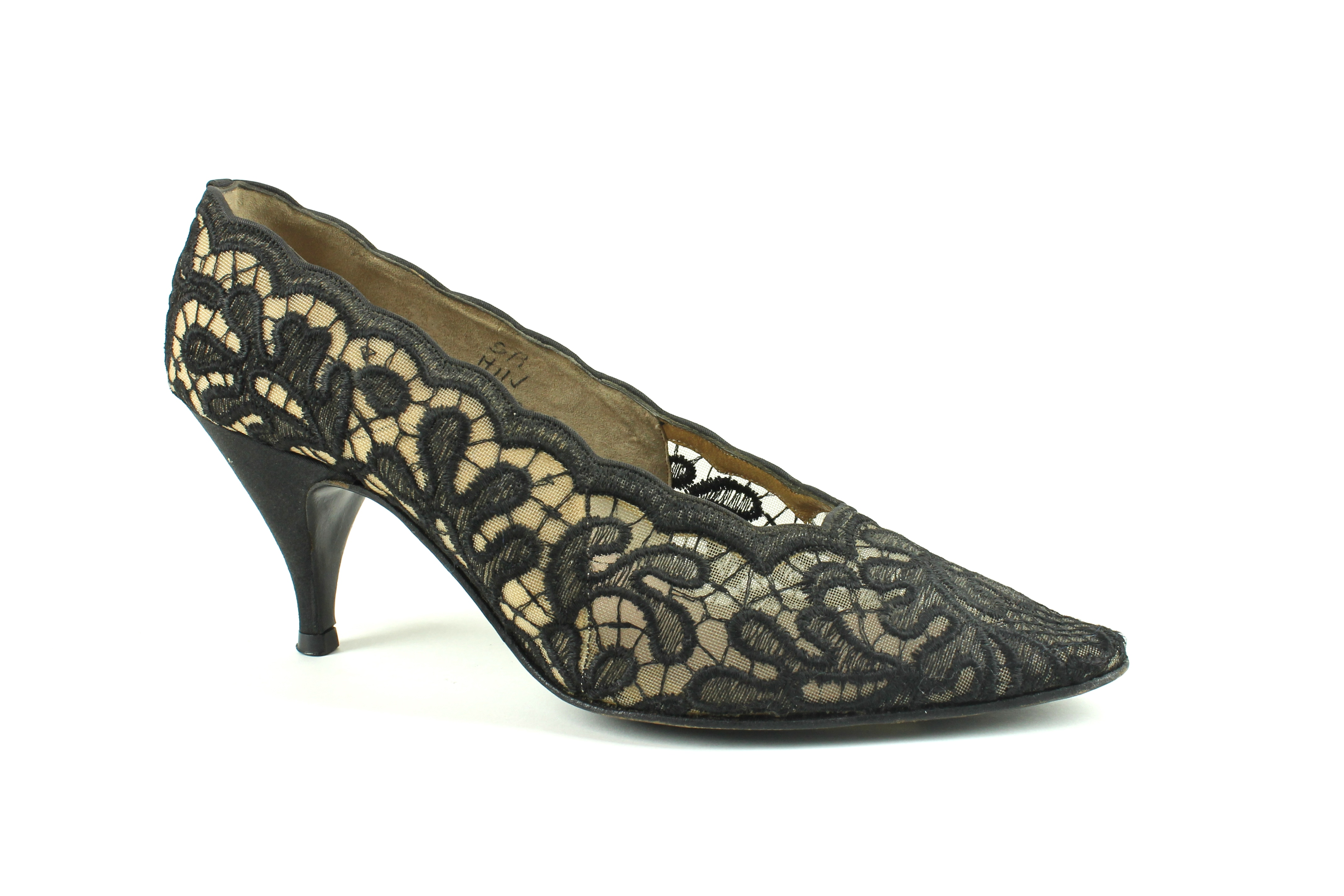 Woman's shoe with Art Deco influence. Light-coloured leather uppers covered in lacework, 1950